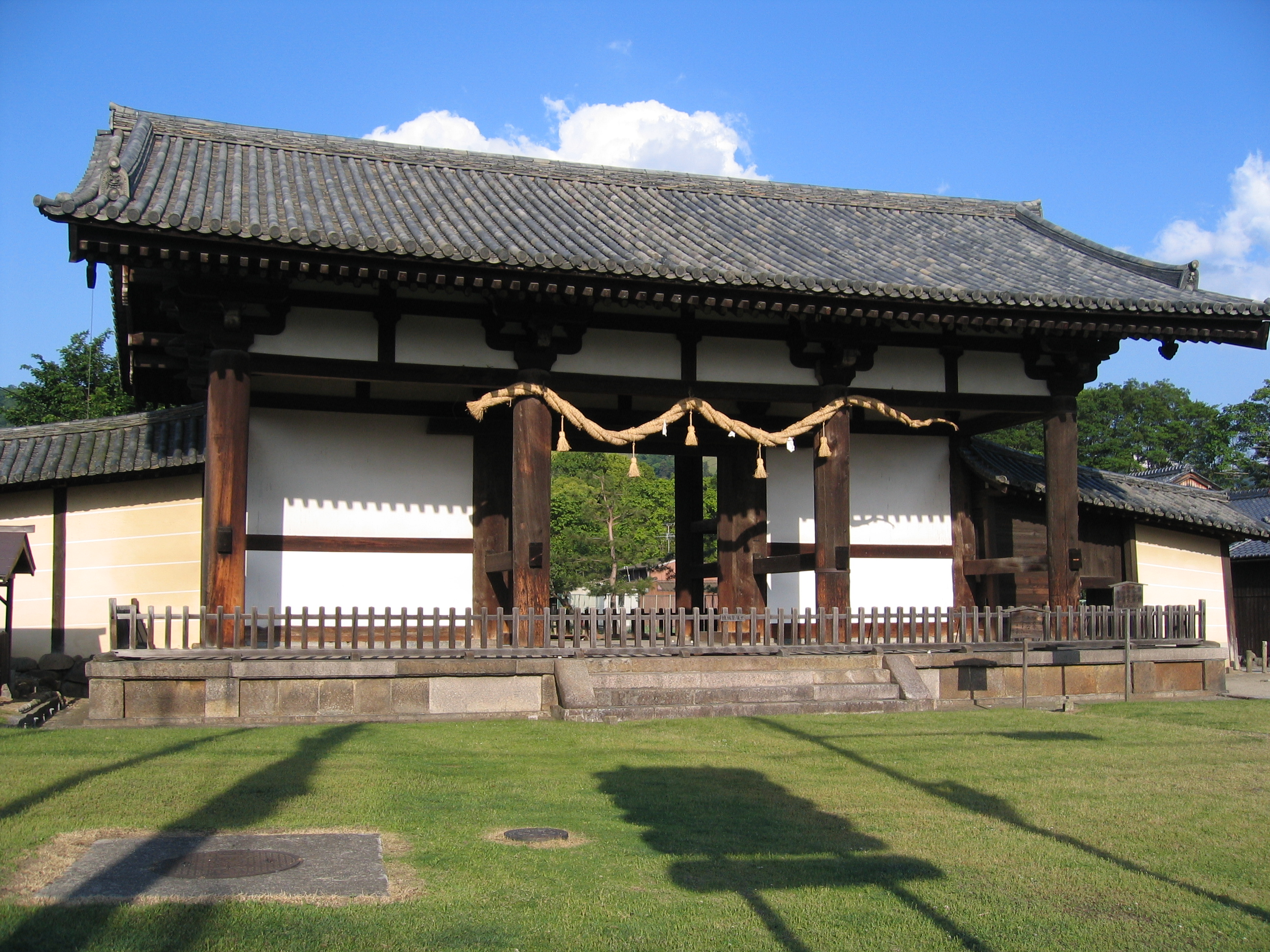 Tegaimon Gate(転害門), literally means "Evil Leaving Gate" at Todaiji, Nara.